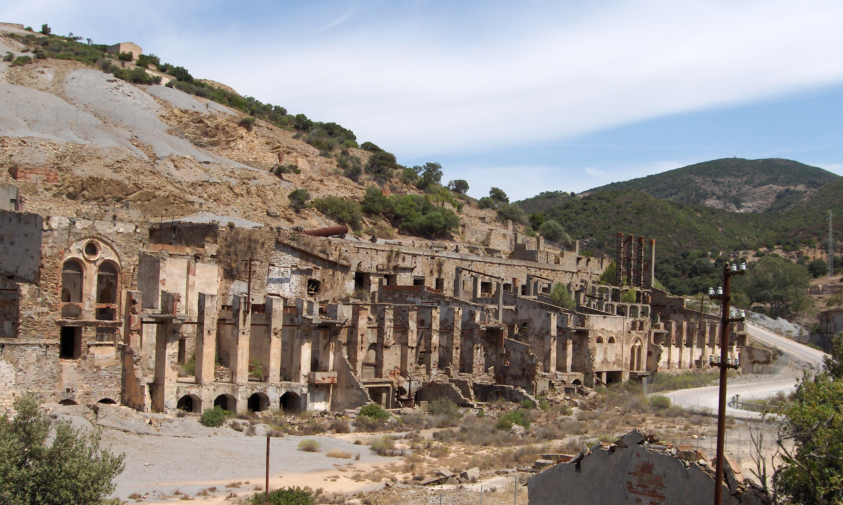 Laveria_Brassey (Ingurtosu, Naracauli, Arbus, Italy)